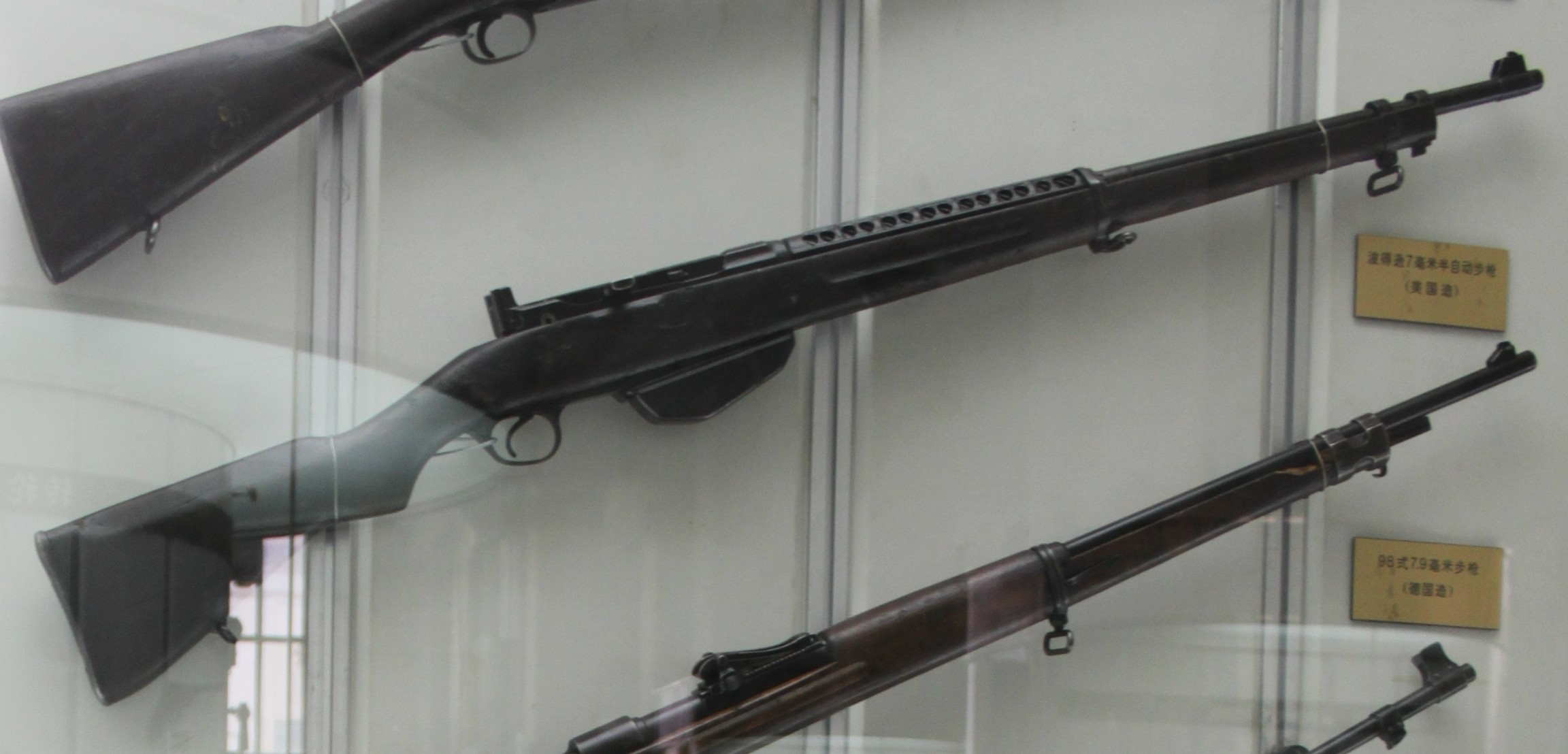 Pedersen rifle in china